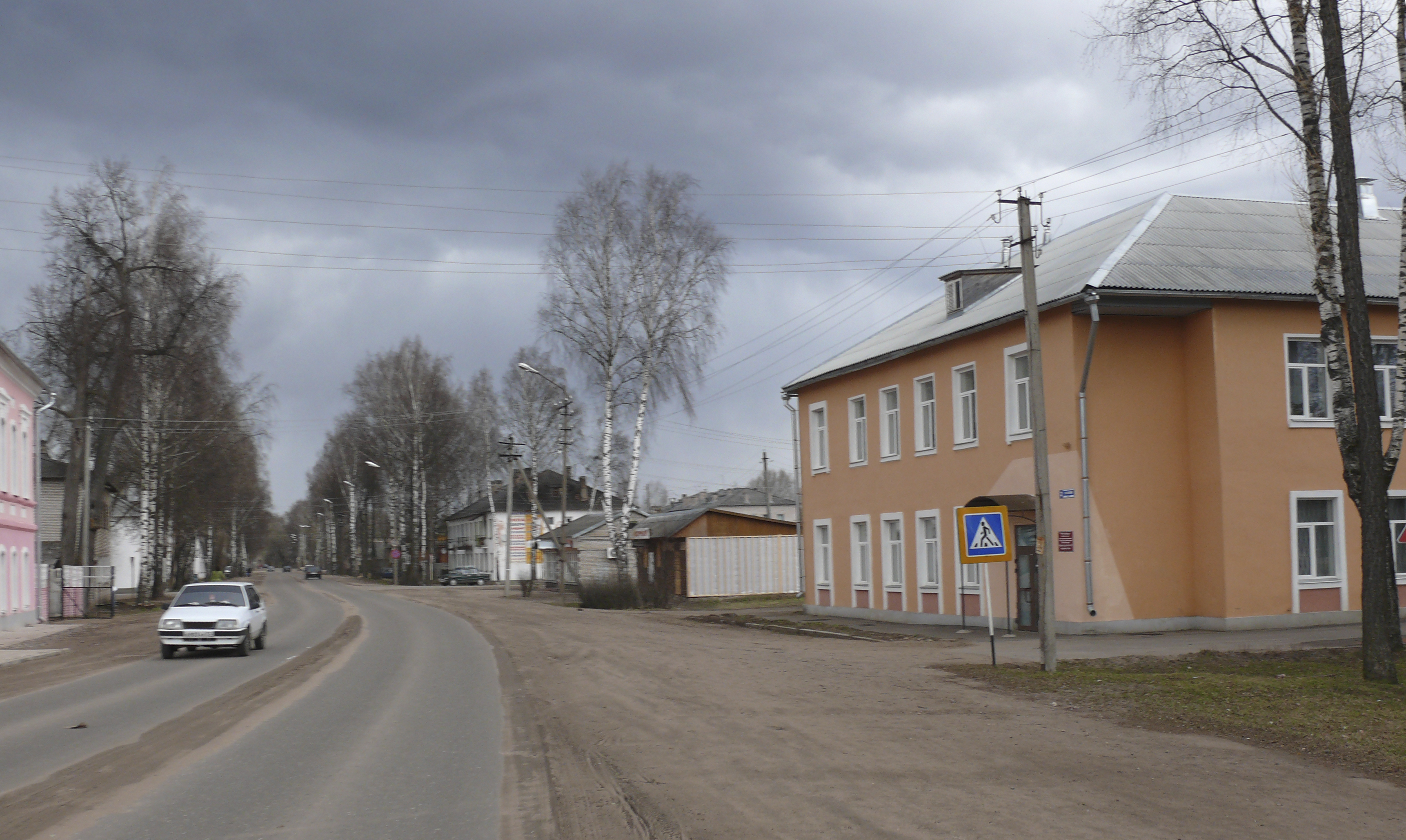 25 Oktober street in Demyansk village. Novgorod oblast, Russia.